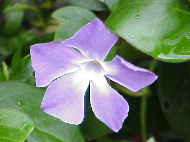 Species: Vinca major Family: ' Image No. 1